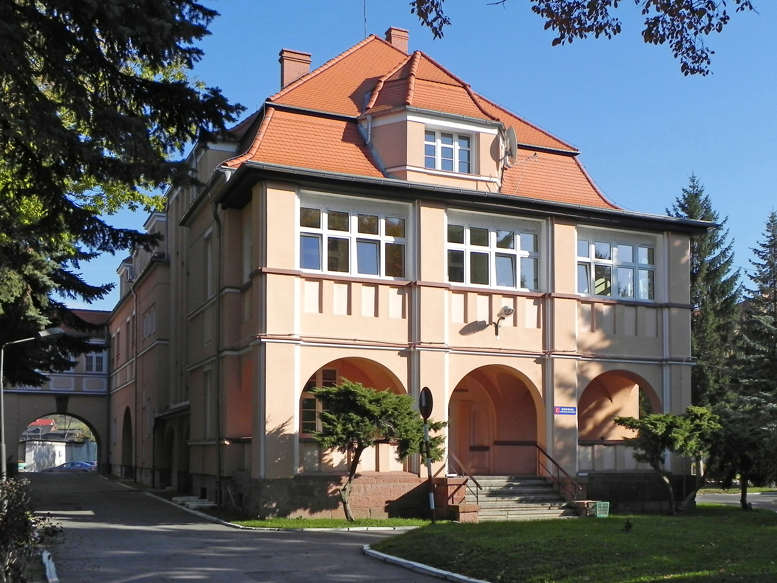 Building of Department of Neurology at Kłodzko Hospital